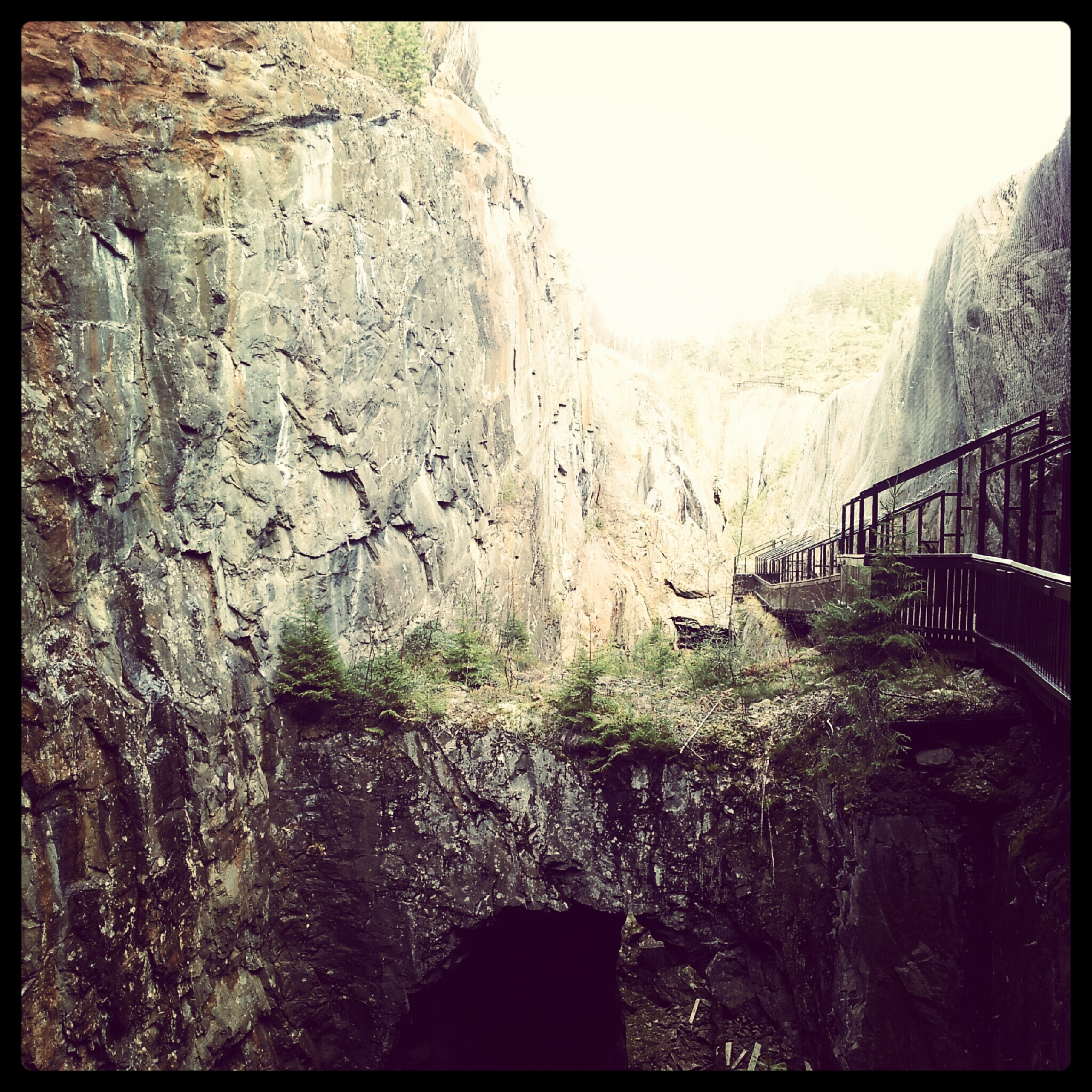 open day mines